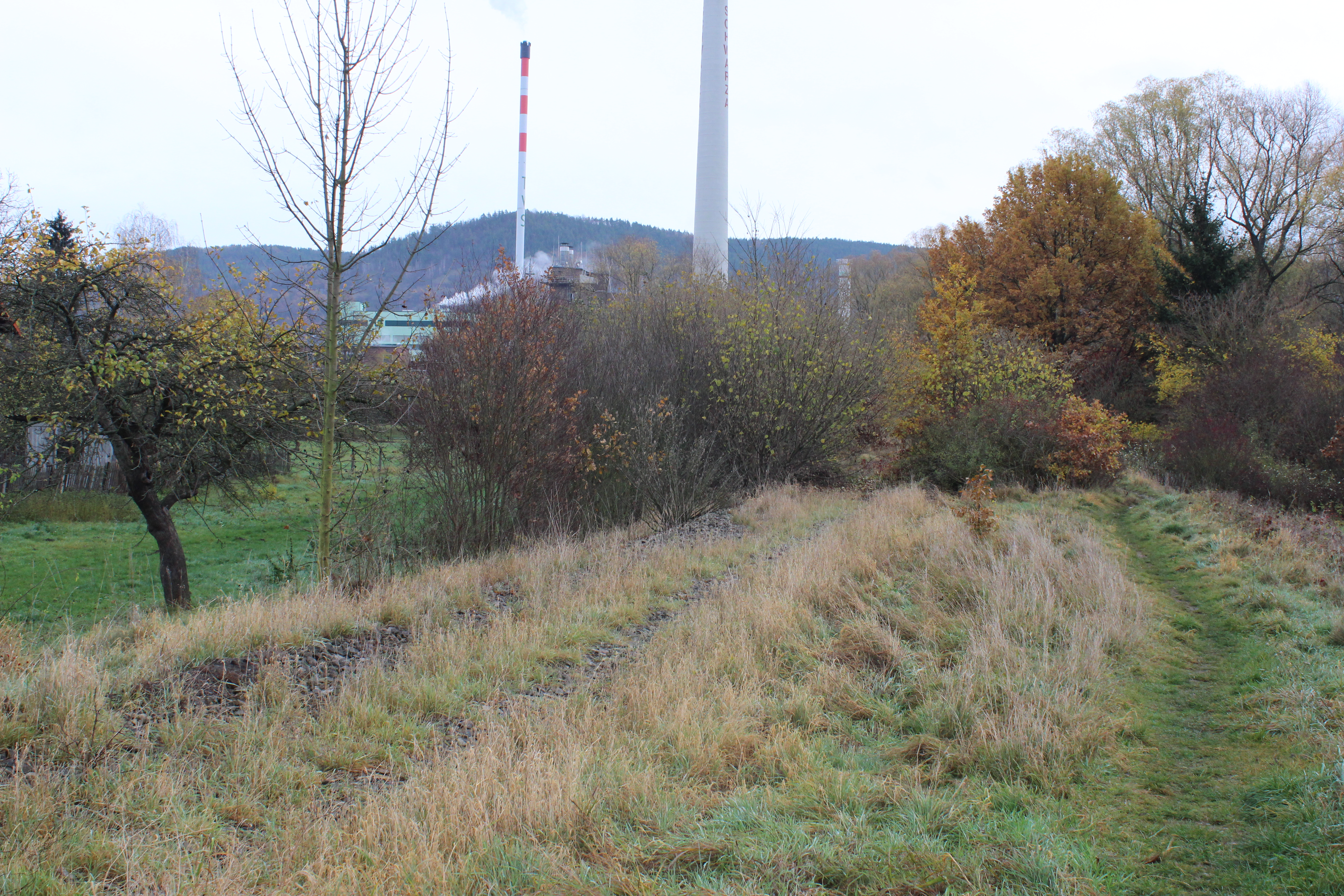 railway Rudolstadt-Schwarza-Bad Blankenburg in Schwarza